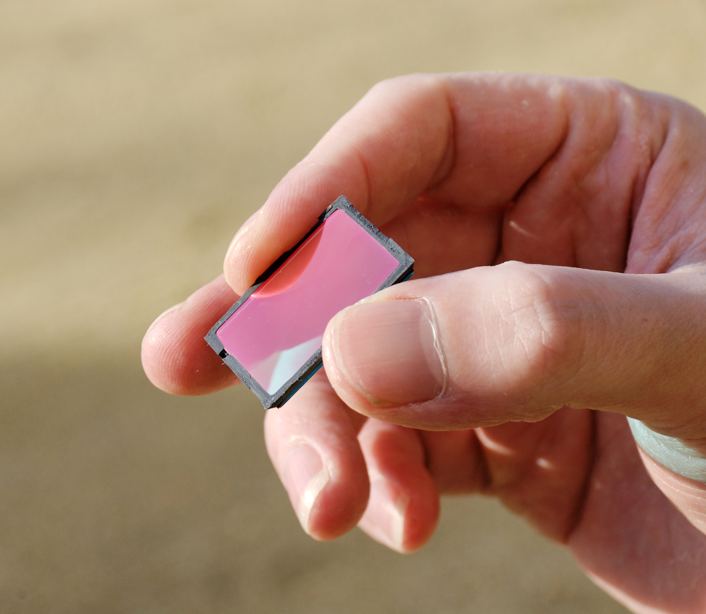 An infrared-blocking filter removed from a Canon EOS 350D dSLR.